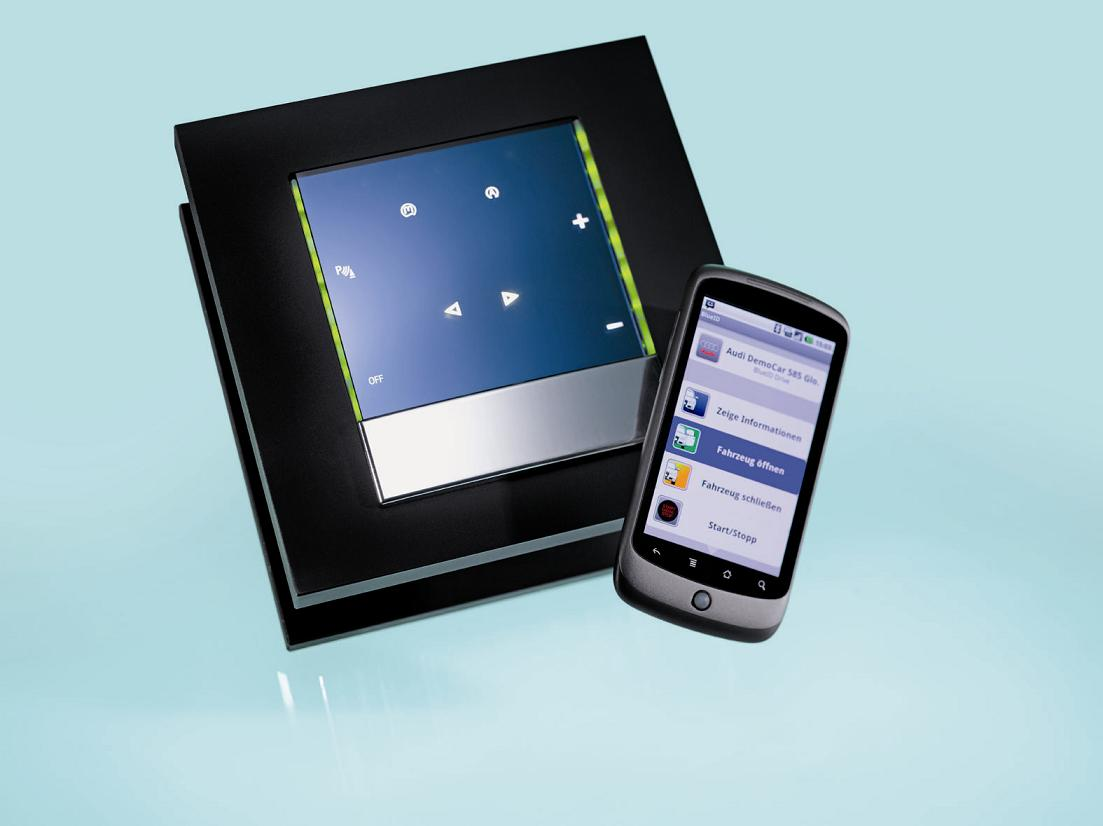 Touchpad and BlueID Drive.